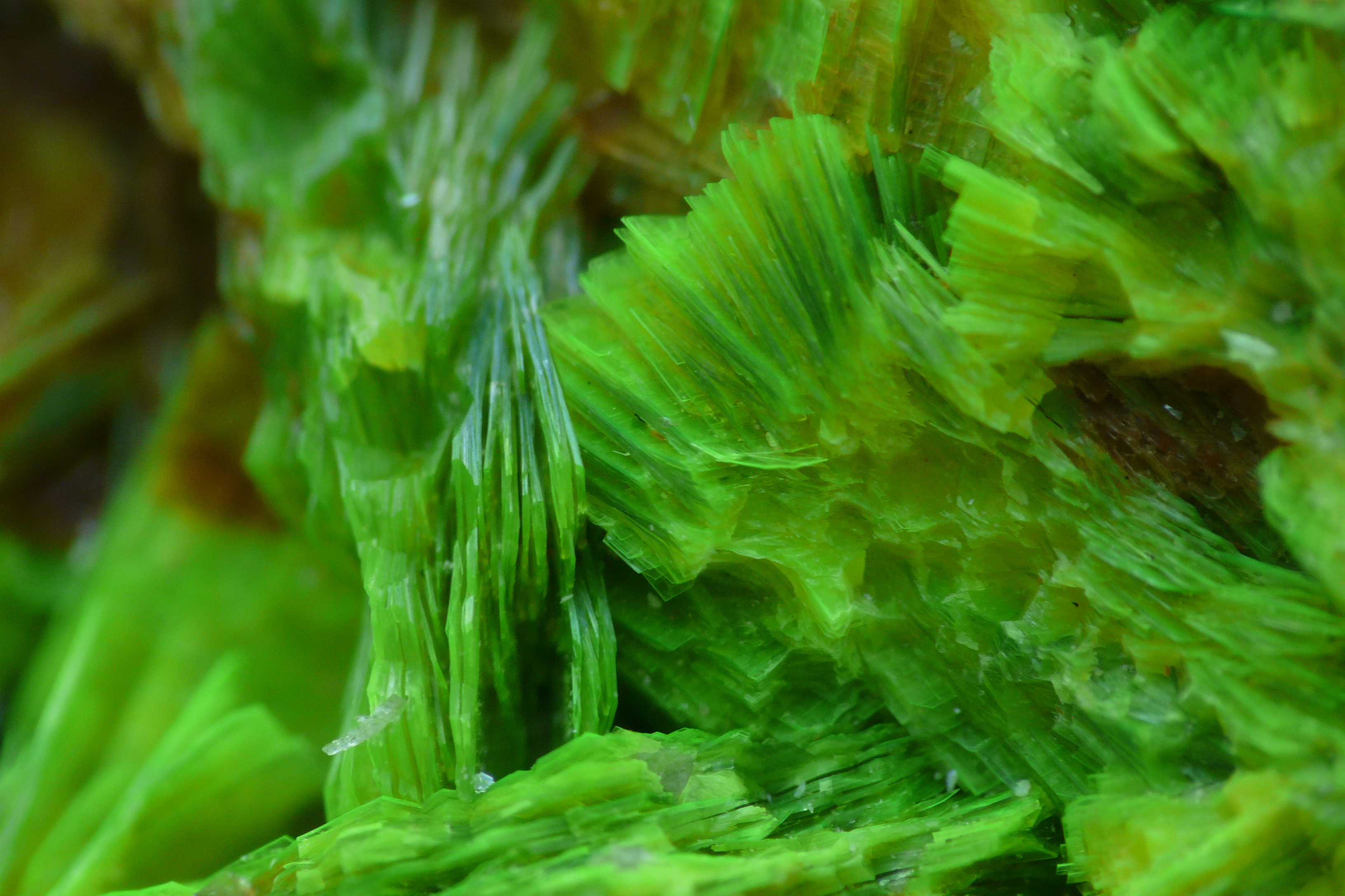 Uranocircite from Streuberg Quarry, Germany, FOV 6mm